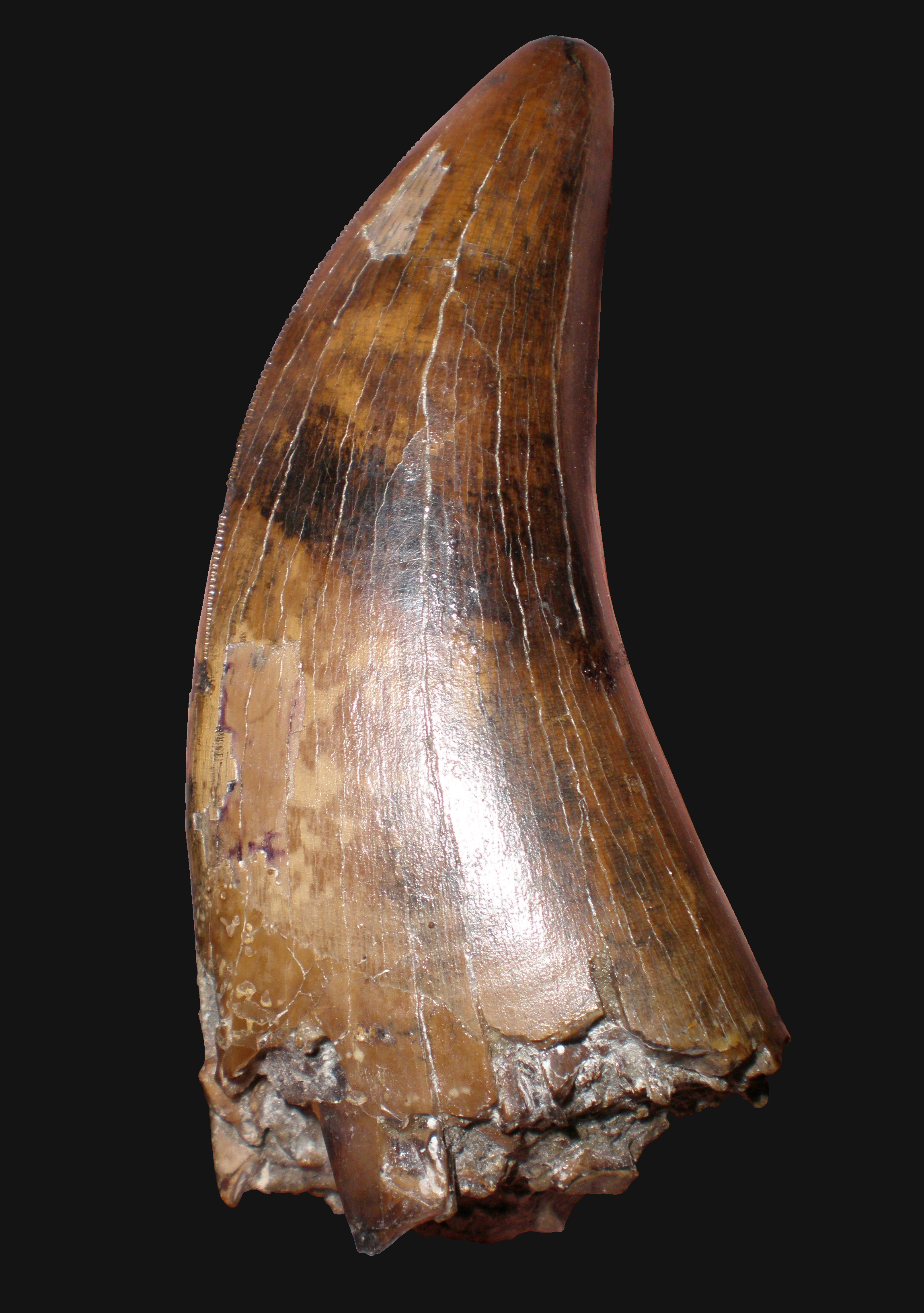 A partial Tyrannosaurus tooth at the University of California Museum of Paleontology. Seen during the UCMP's open house on Cal Day.